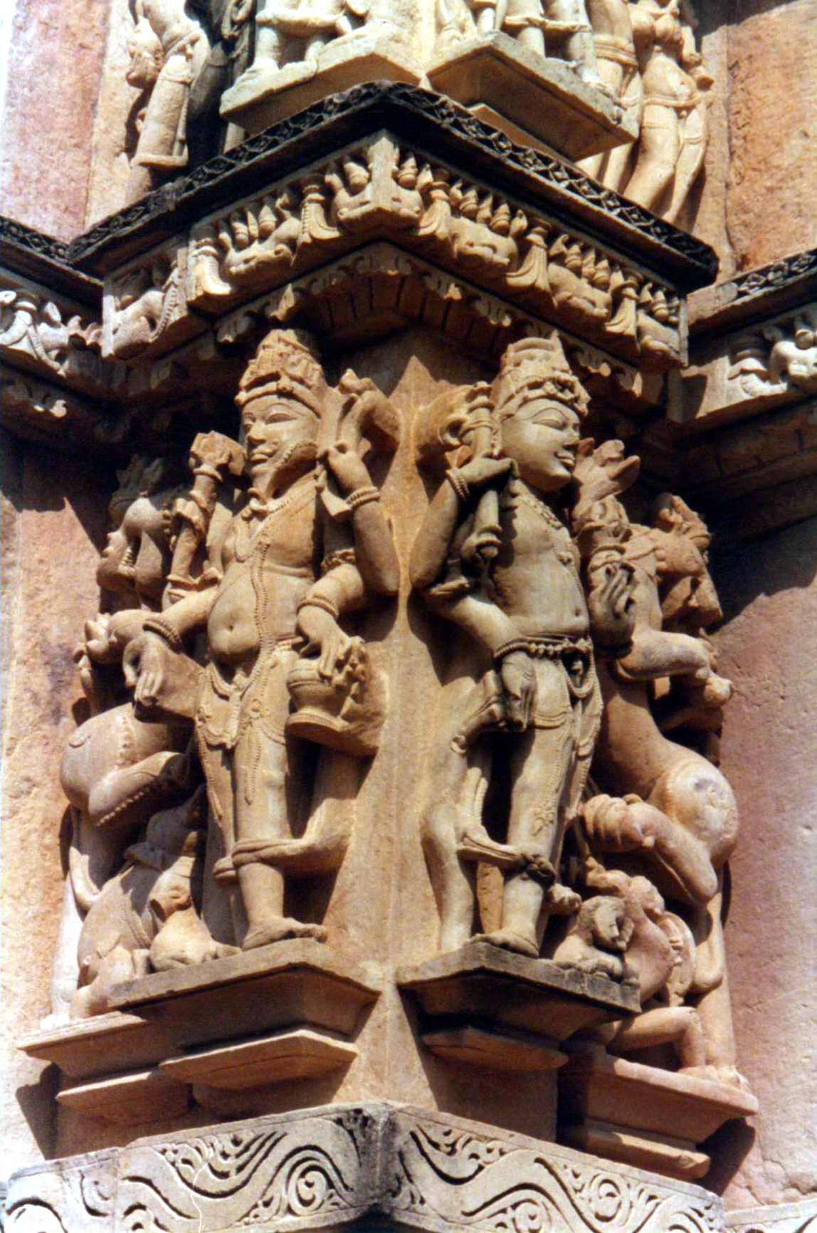 Dikpalas Indra and Agni. Parshvanatha Temple, Jain complex, Khajuraho Dikpalas, or directional guardians, are stationed around the four corners of many temples. The southeast corner, with guardians Indra (E, photo right) and Agni (SE, photo left), is shown here.